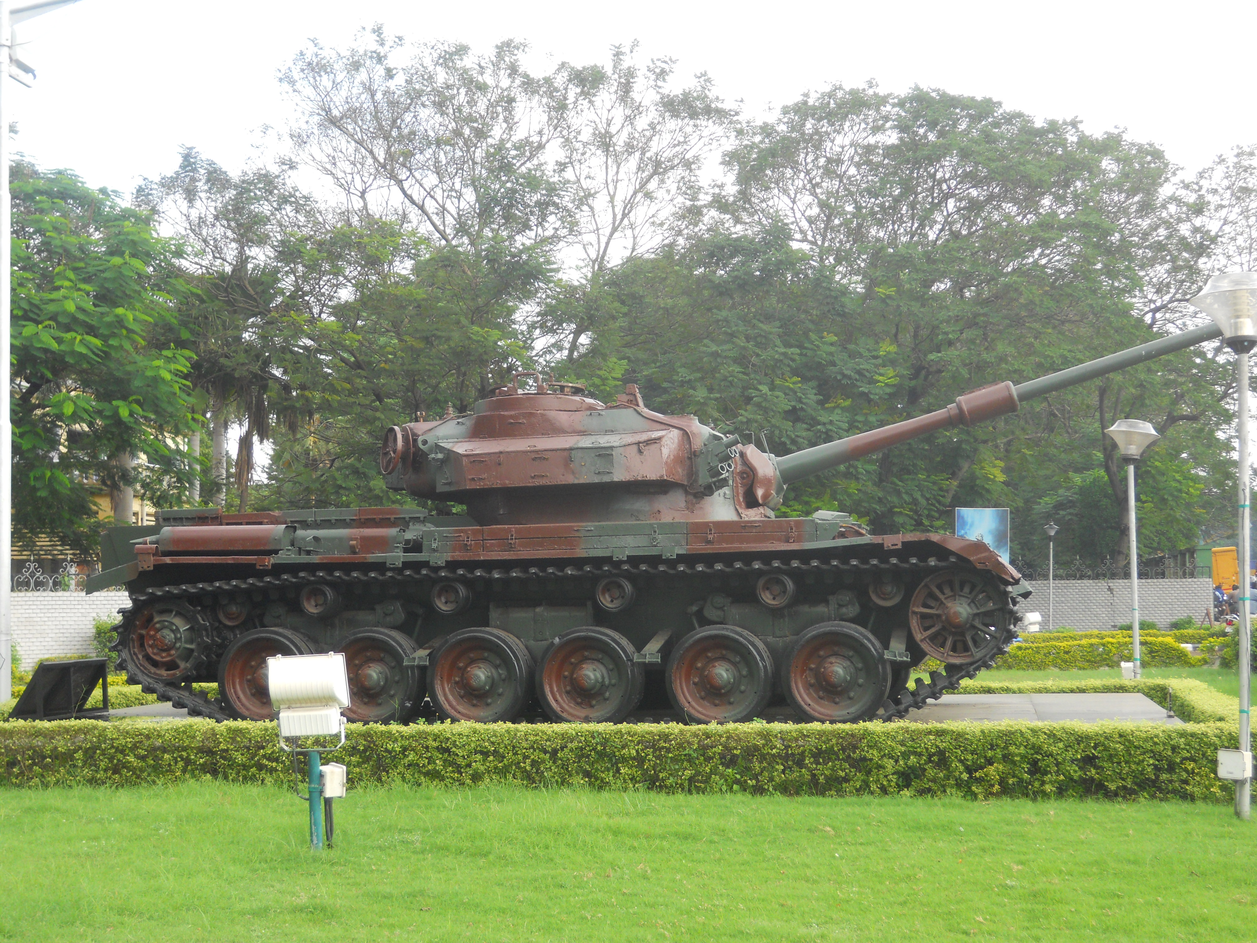 Centurion Tank at the gate of Officers Training Academy, Indian Army at Pallavaram, chennai